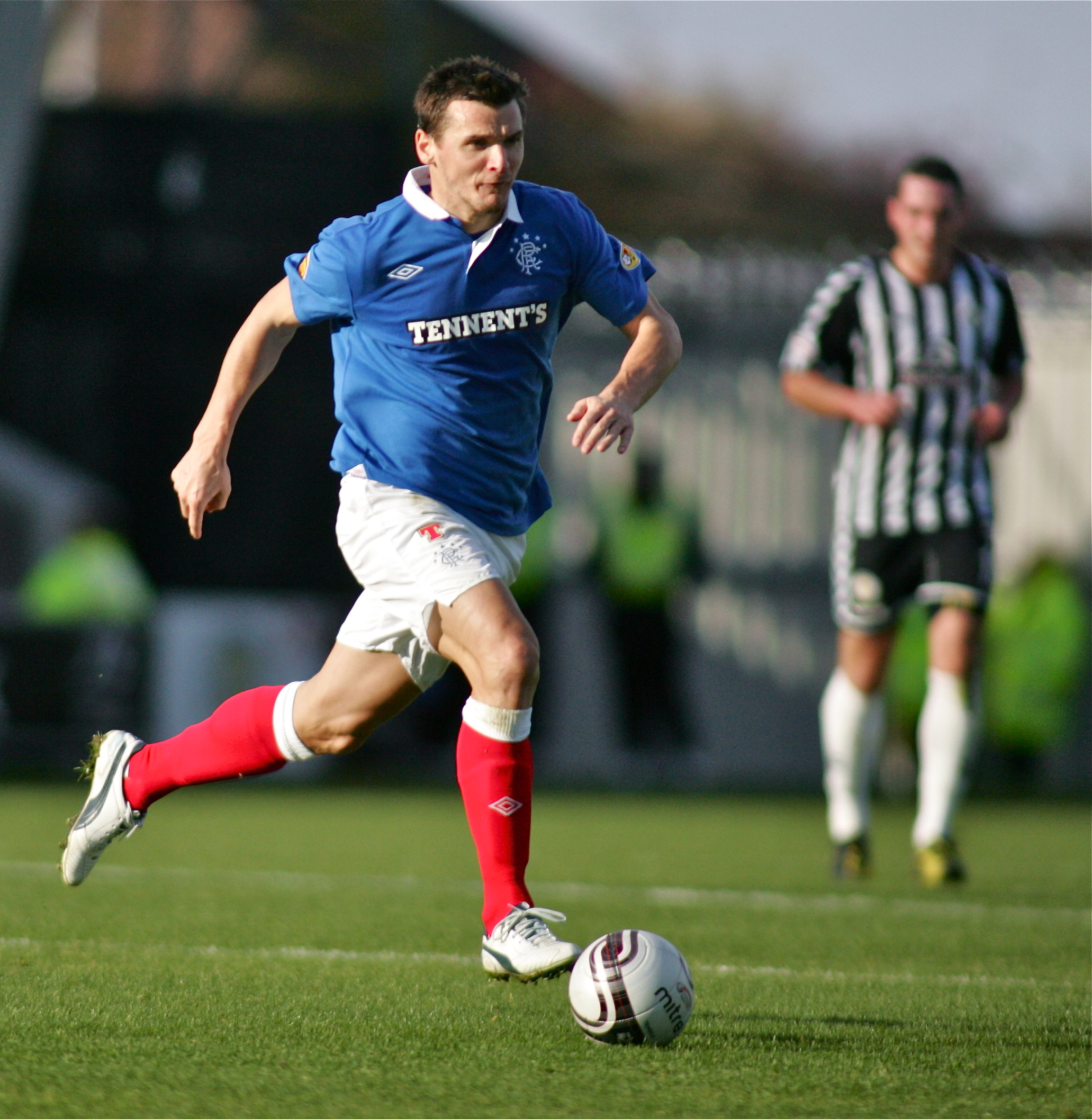 Lee McCulloch playing for Rangers F.C. in a Scottish Premier League match against St. Mirren F.C. played on 7 November 2010